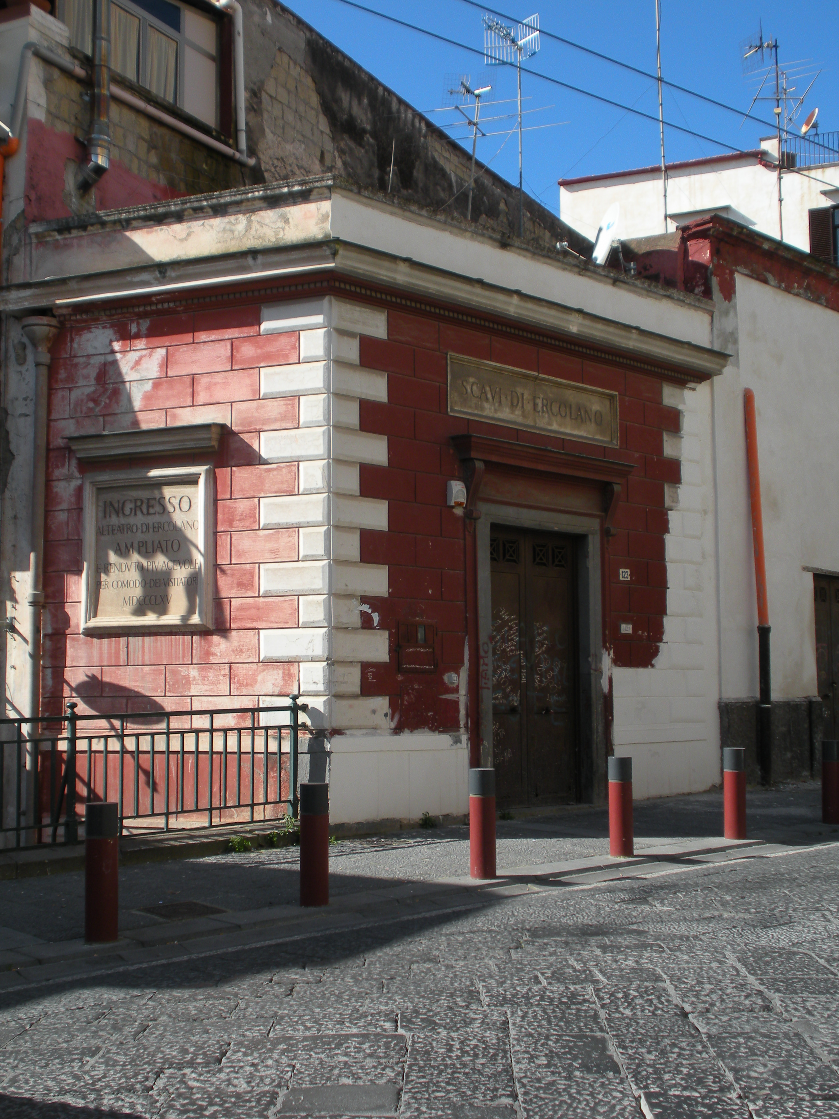 The entrance to the ancient underground Theatre of Herculaneum